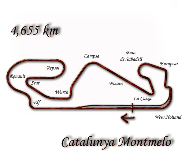 Spanish Grand Prix Formula 1 /2007/